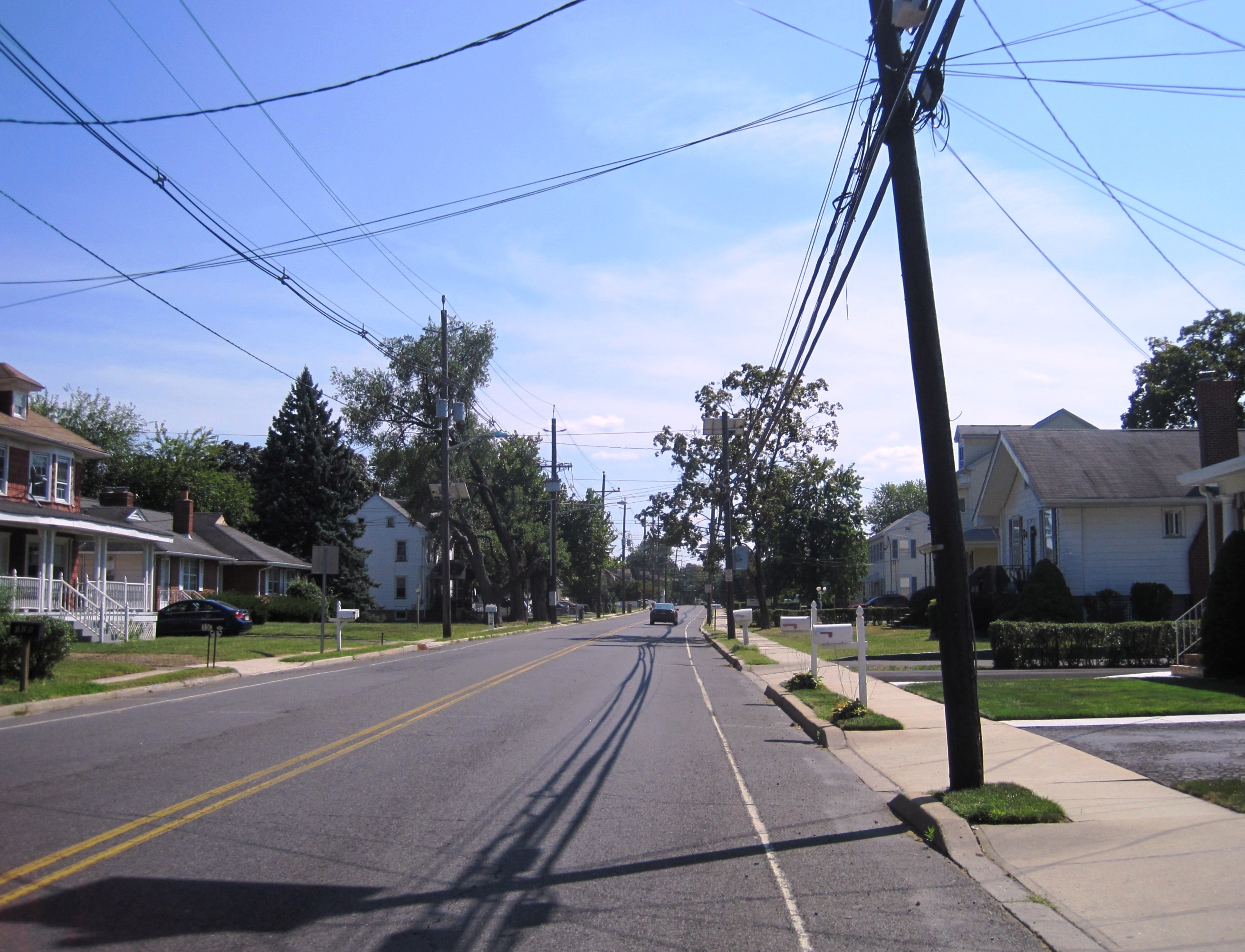 Photo of Hutchinson Mills, New Jersey, an unincorporated community within Hamilton Township, Mercer County. Photo taken along southbound Klockner Road past East State Street Extension (County Route 535).